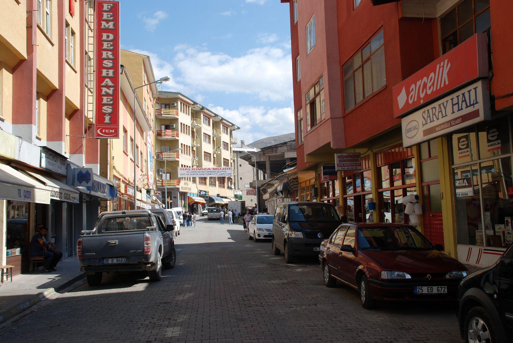 Ispir, Erzurum province